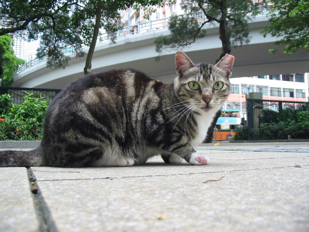 A classic tabby striped street cat in Victoria Park named "Chiu"